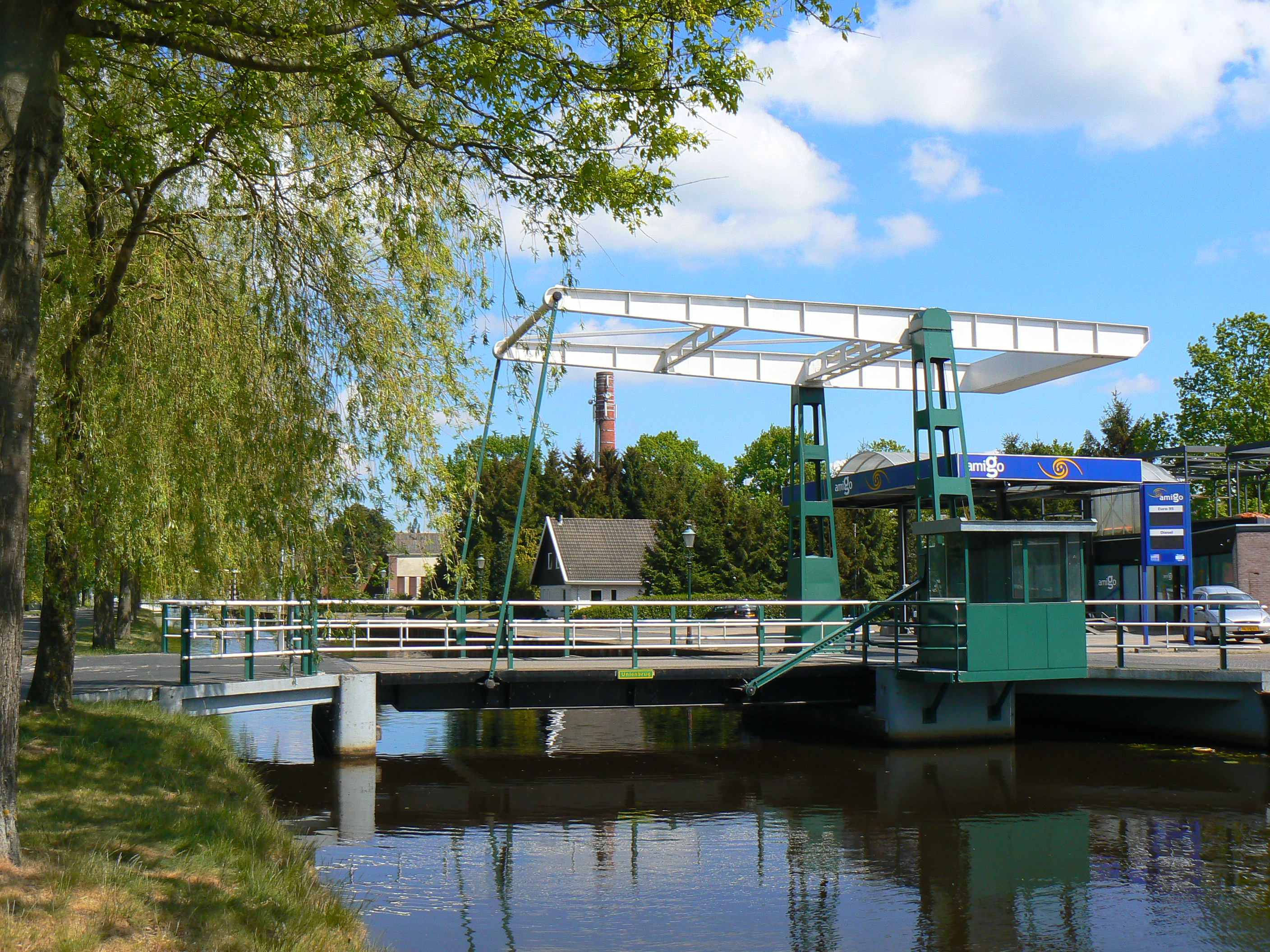 Unionbrug, F. Clockstraat in Oude pekela/The Netherlands